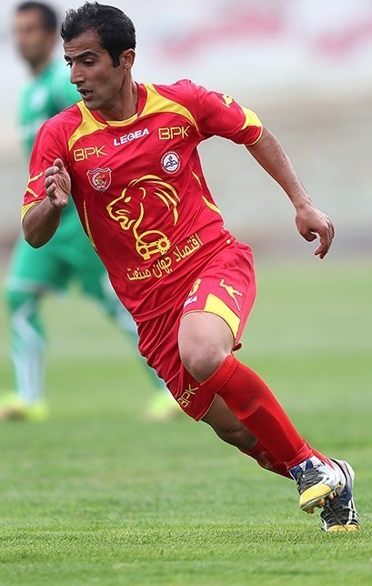 Iman Mobali